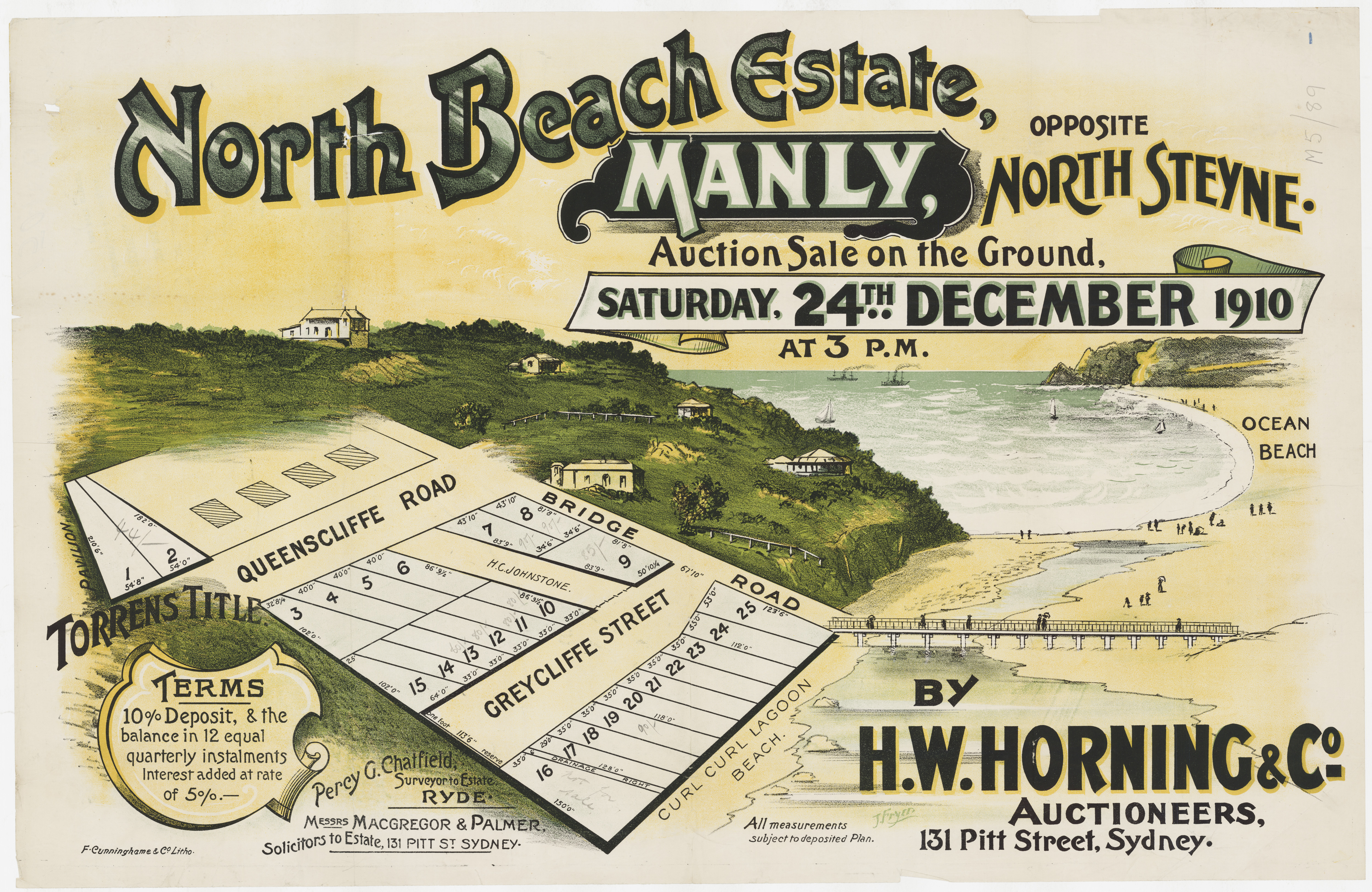 North Beach Estate, Manly, 24 December 1910, auction H. W. Horning, subdivision plan, lithograph by F. Cunnighame and Co., State Library of New South Wales Z/SP/M5